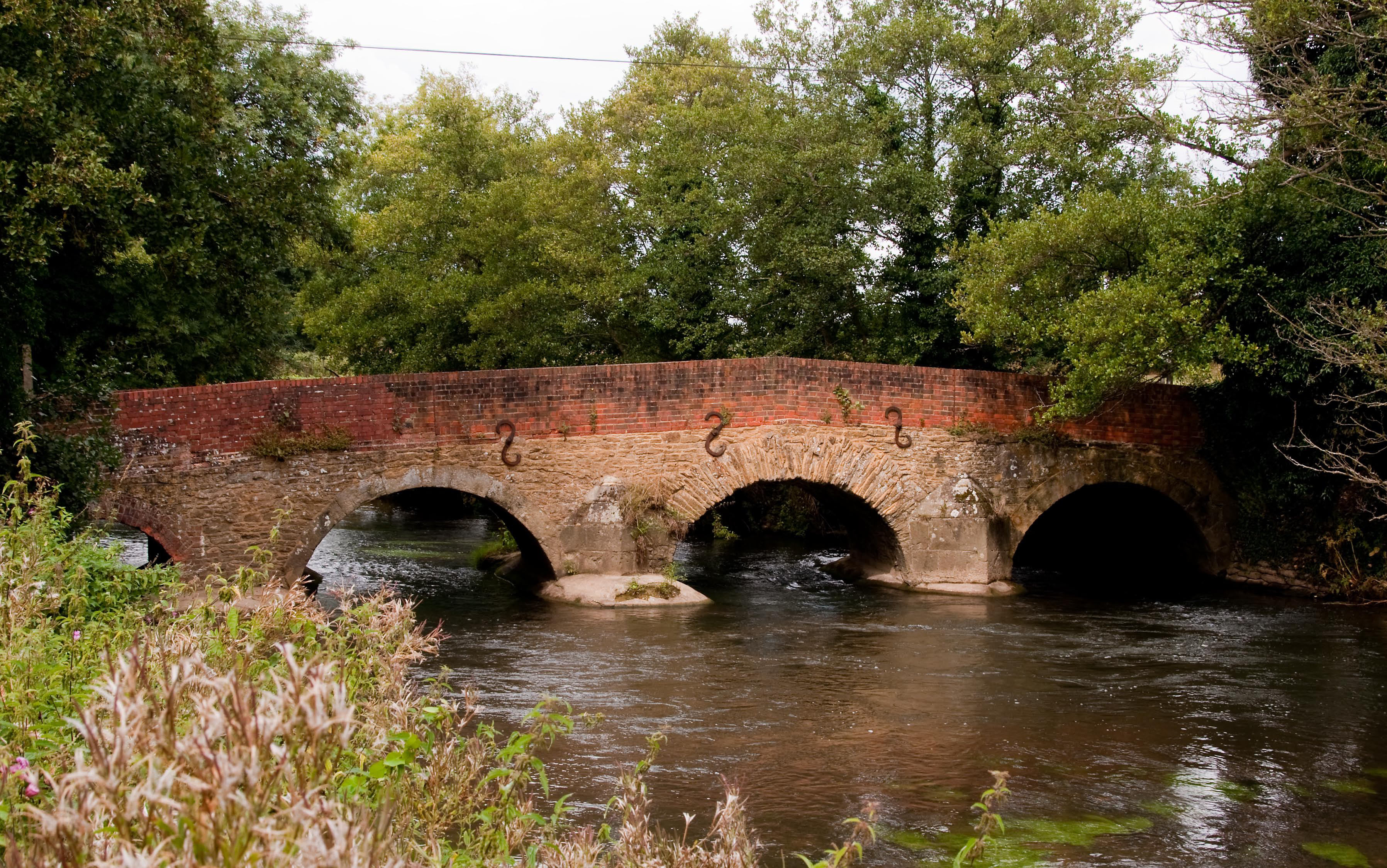 Somerset Bridge over the River Wey in Peper Harow, Surrey, seen from the south east. C13 with C18 and C20 extensions and alterations. Citation states probably built by the monks of Waverley Abbey. Note the repaired brickwork on the left.